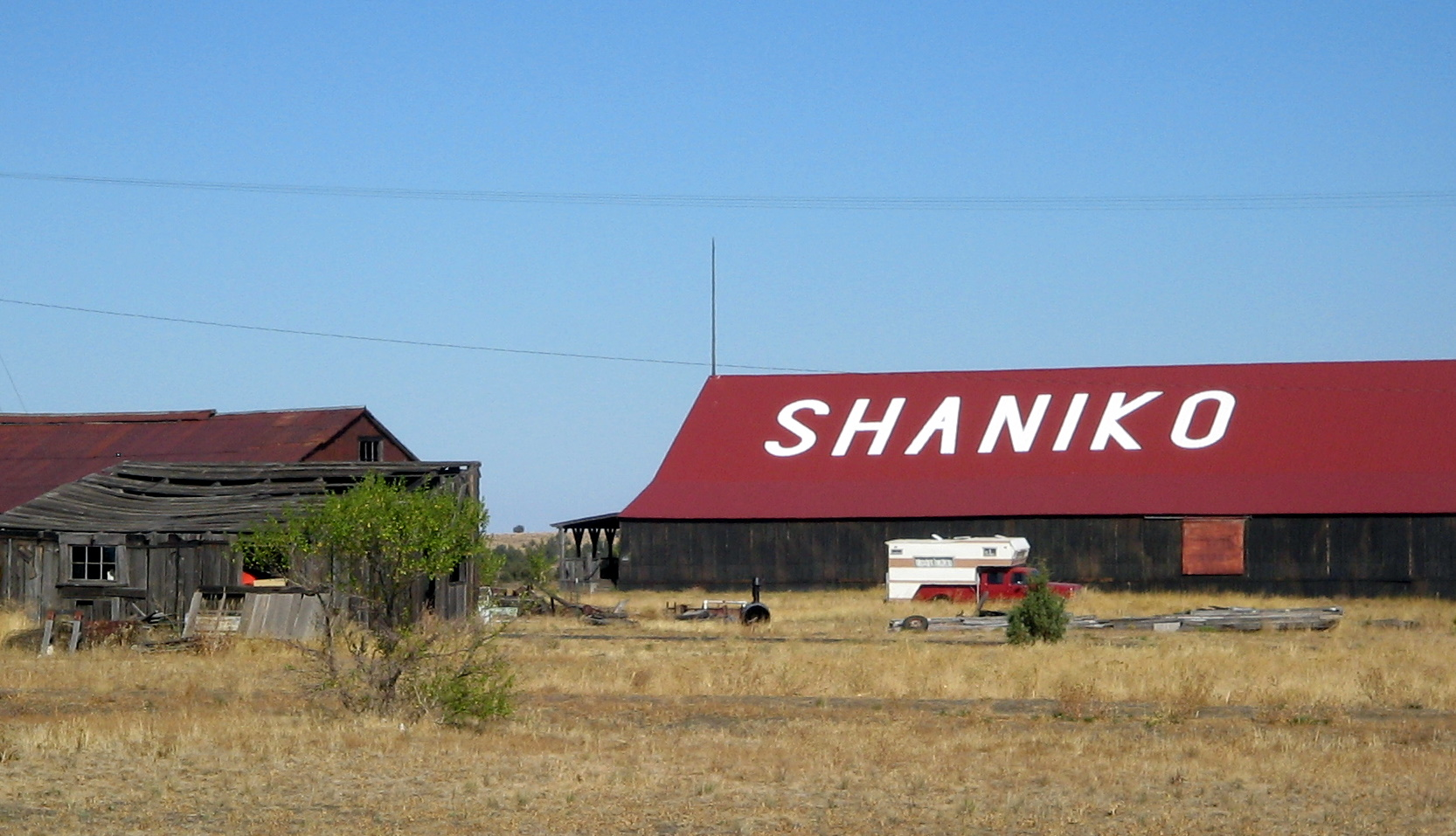 Painted barn in Shaniko, Oregon. Photo should be credited (as Creative Commons requires) to "Ken Morton".